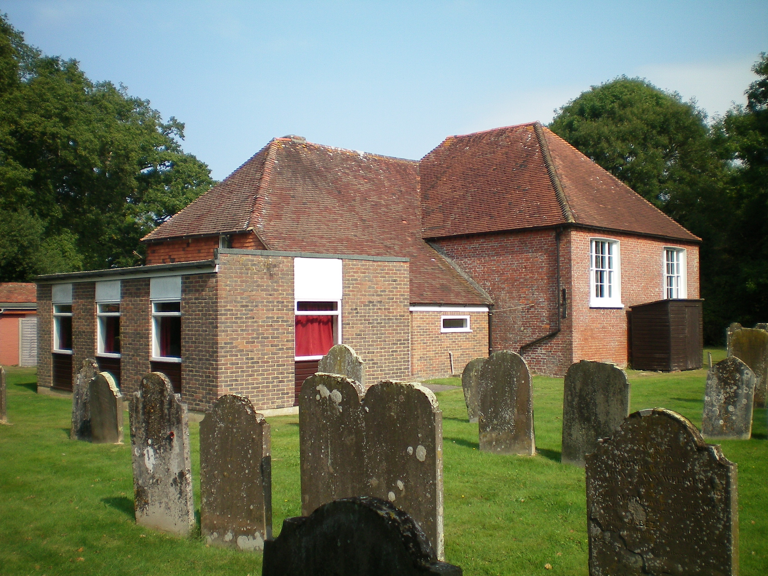 Wivelsfield Strict Baptist Chapel, East Sussex, England.